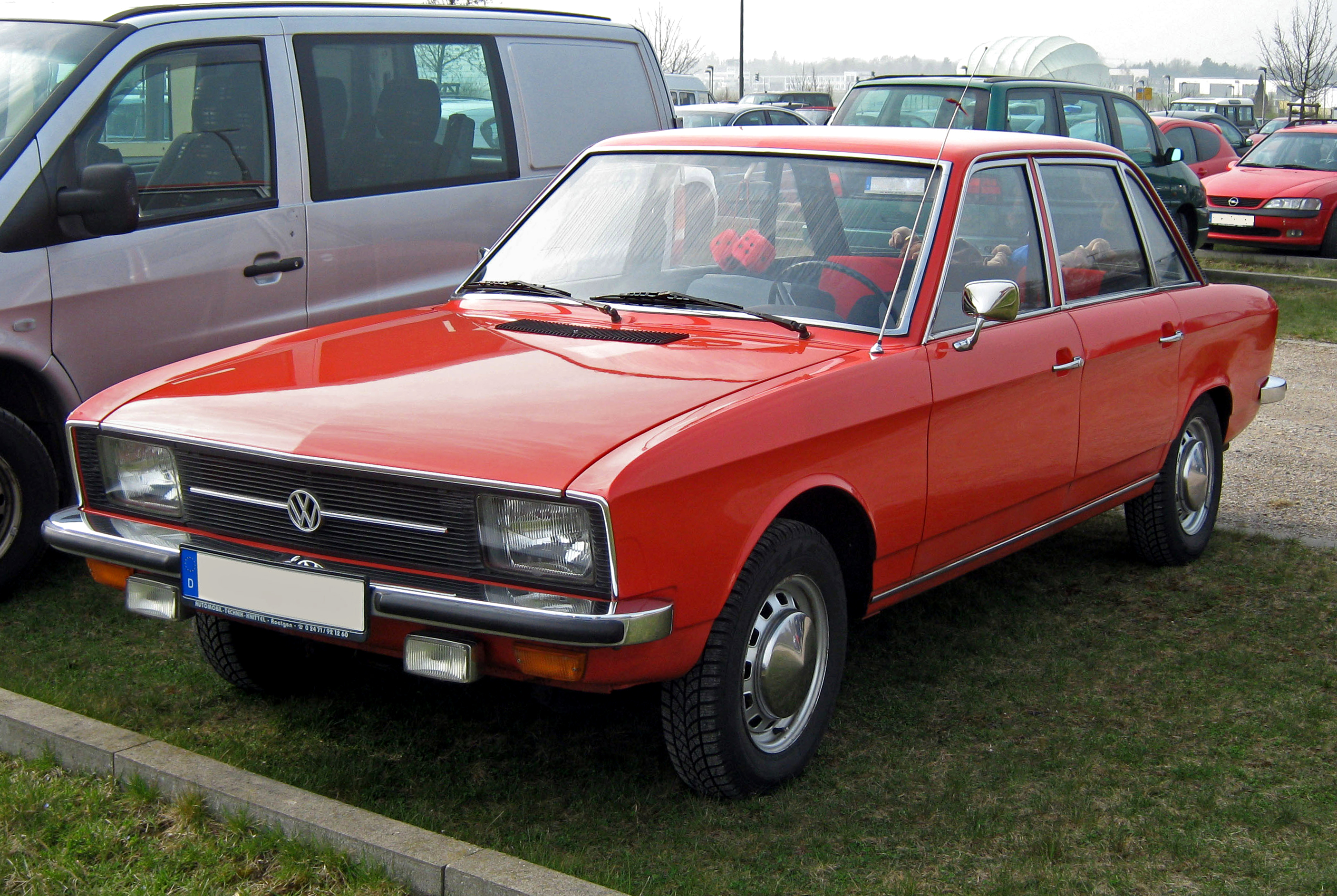 I edited the original image for use on my ad-supported automotive website (Ate Up With Motor), obscuring the numberplate of background vehicles. This is the edited version.